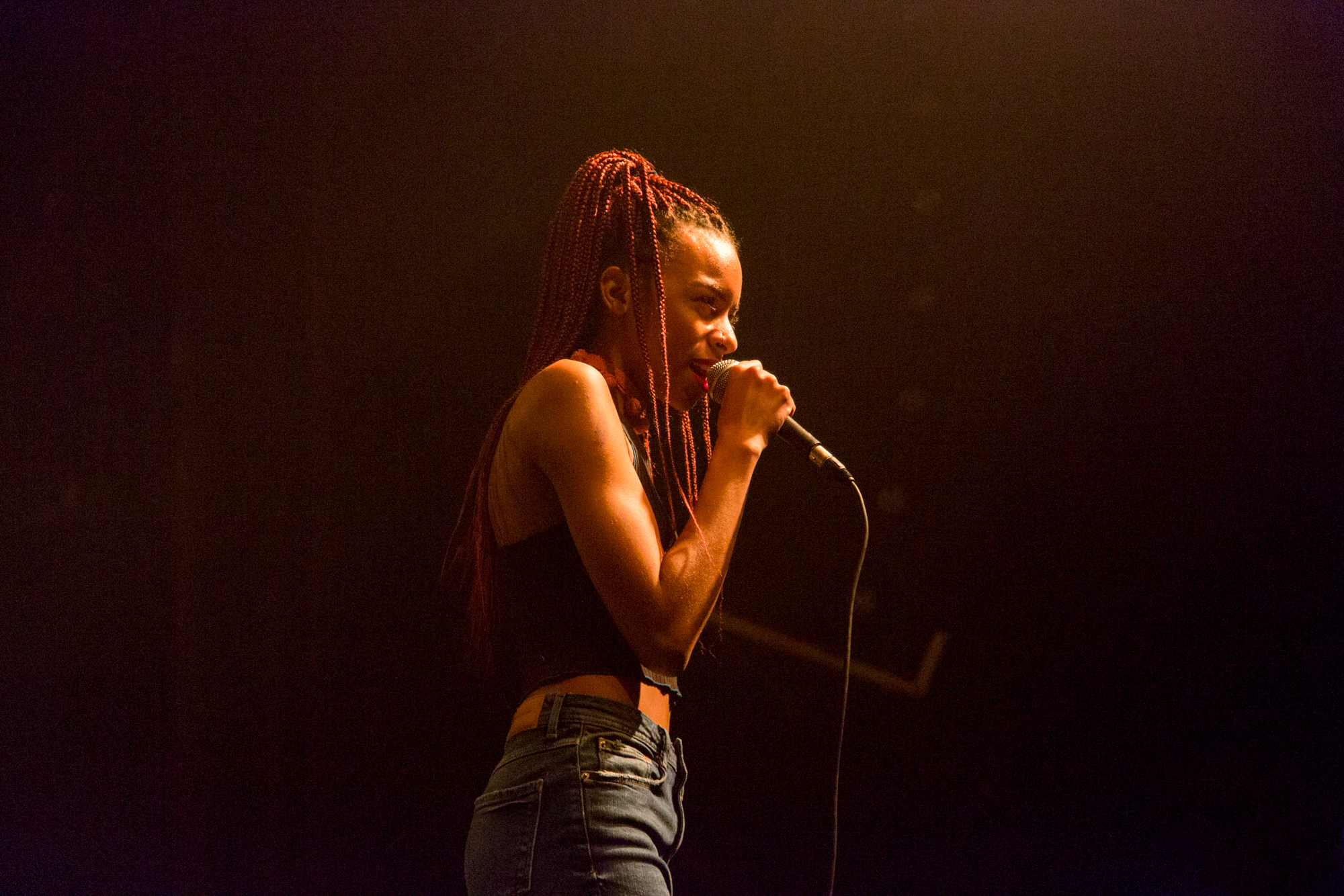 Ravyn Lenae performing at Phoenix Concert Theatre as part of the Telefone Tour on March 5, 2017 Toronto, ON, Canada.